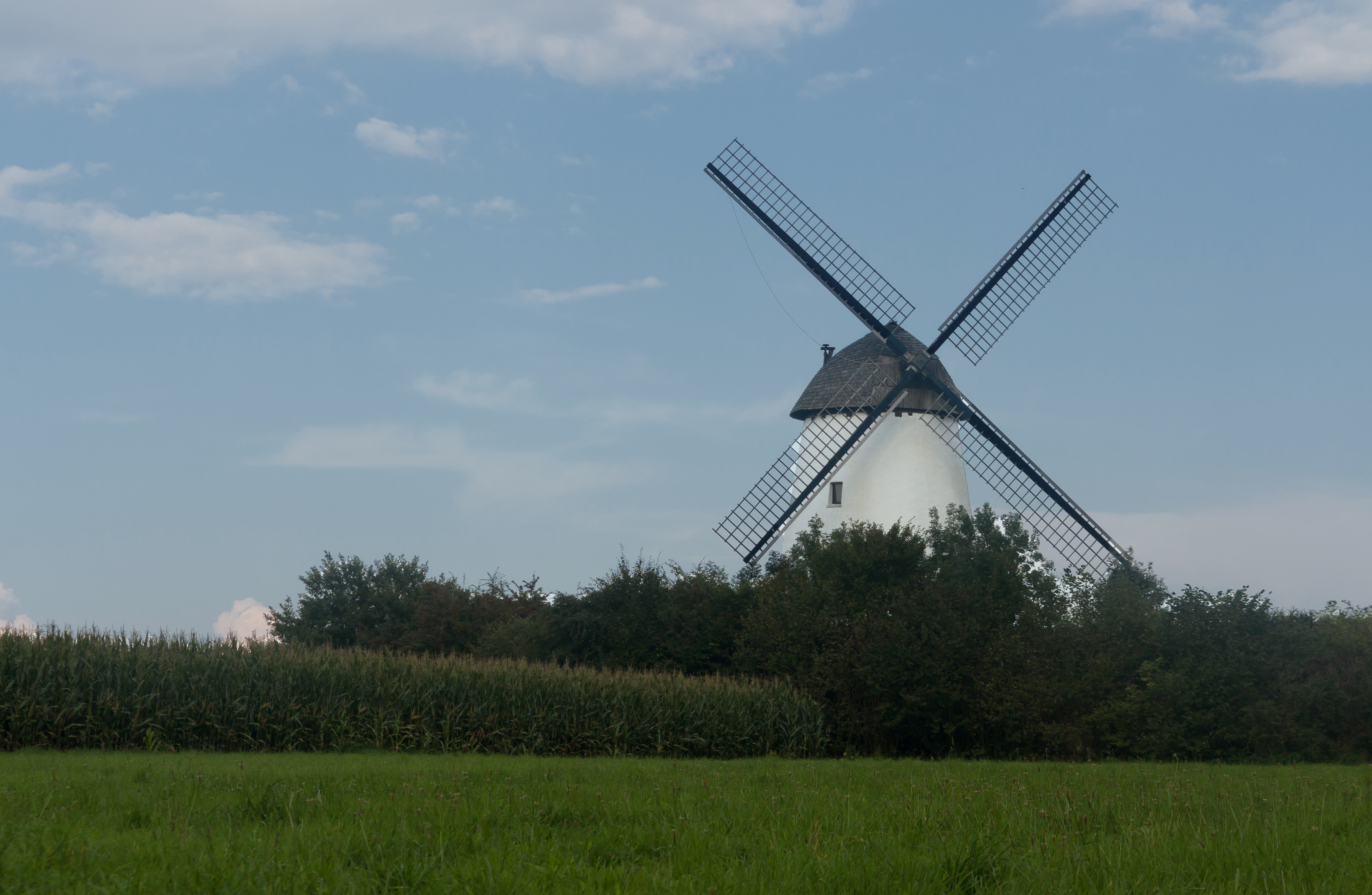 Schmerlecke, Windmühle Am Alten HellwegThis is a photograph of an architectural monument., no. 4